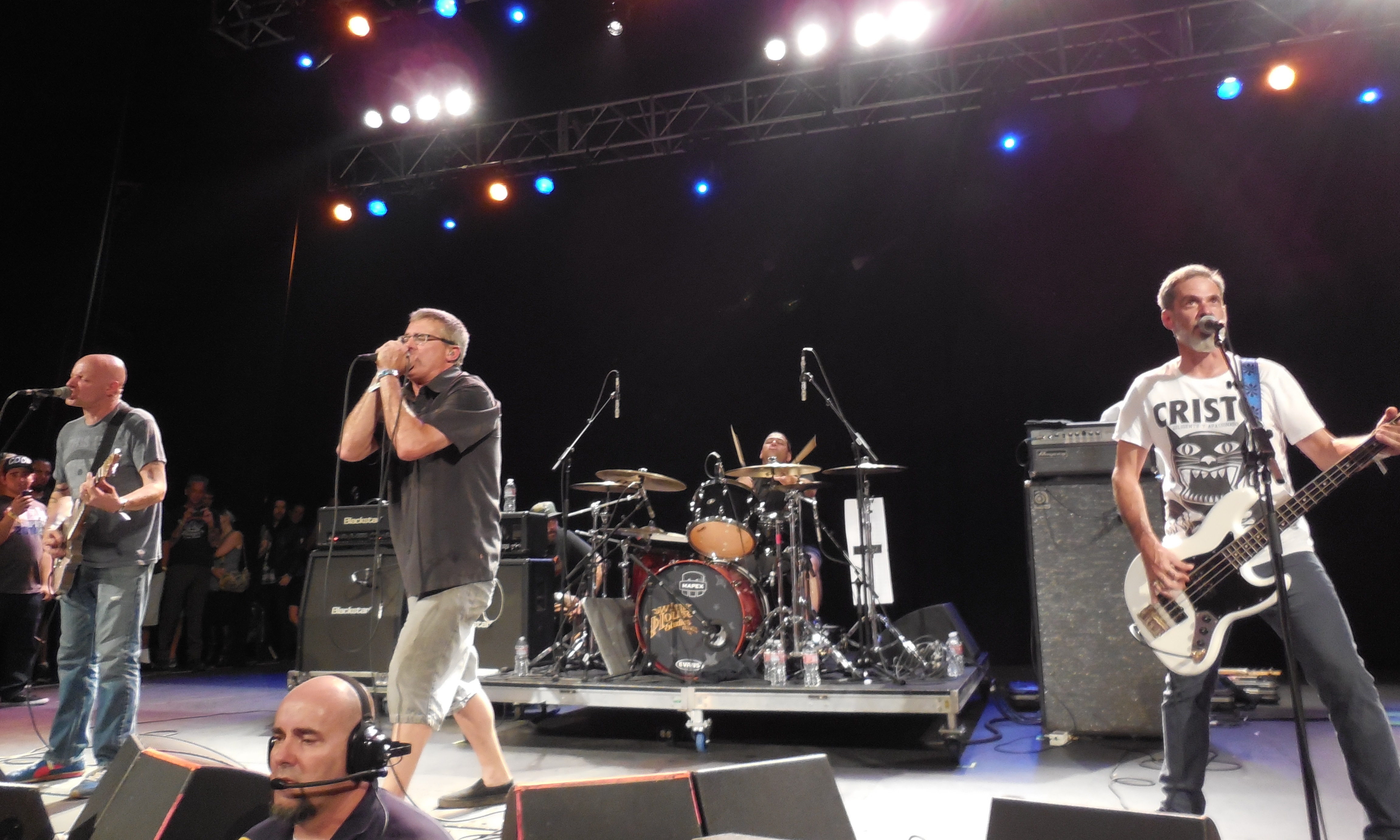 Descendents performing at the Fox Theater in Pomona, California on September 28, 2014. Left to right: guitarist Stephen Egerton, singer Milo Aukerman, drummer Bill Stevenson, and bassist Karl Alvarez.